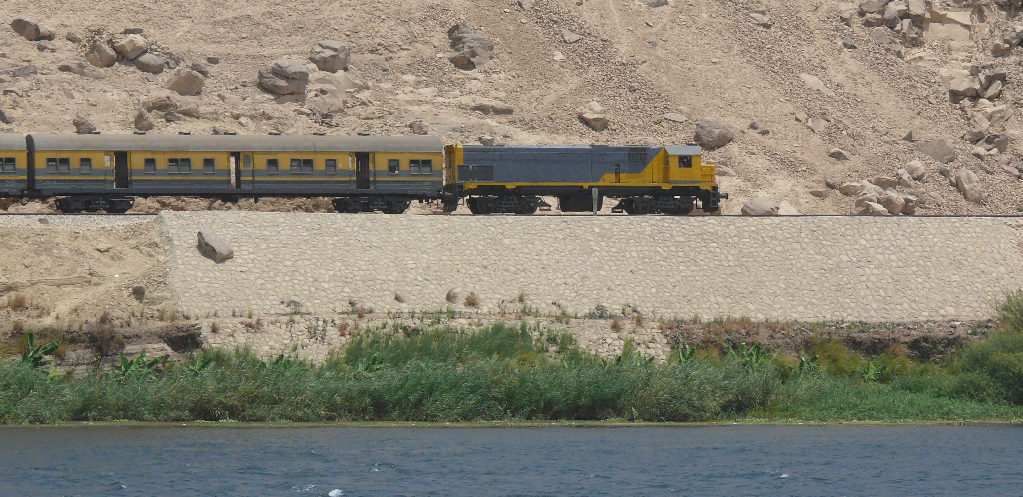 Egyptian National Railways train with EMD G22W AC locomotive 3996 on the Luxor -Aswan line on the banks of the river Nile between Edfu and Kom Ombo.